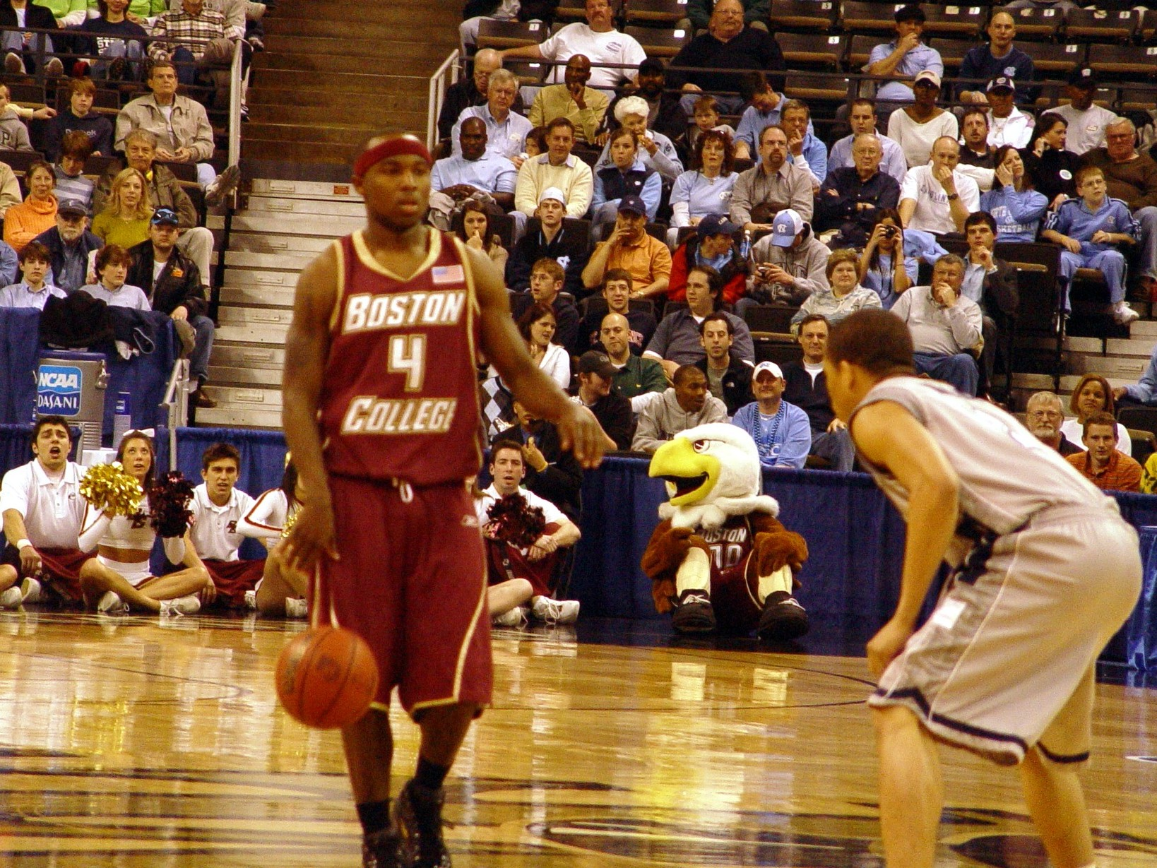 4 Tyrese Rice brings the ball into the front court agains Georgetown.